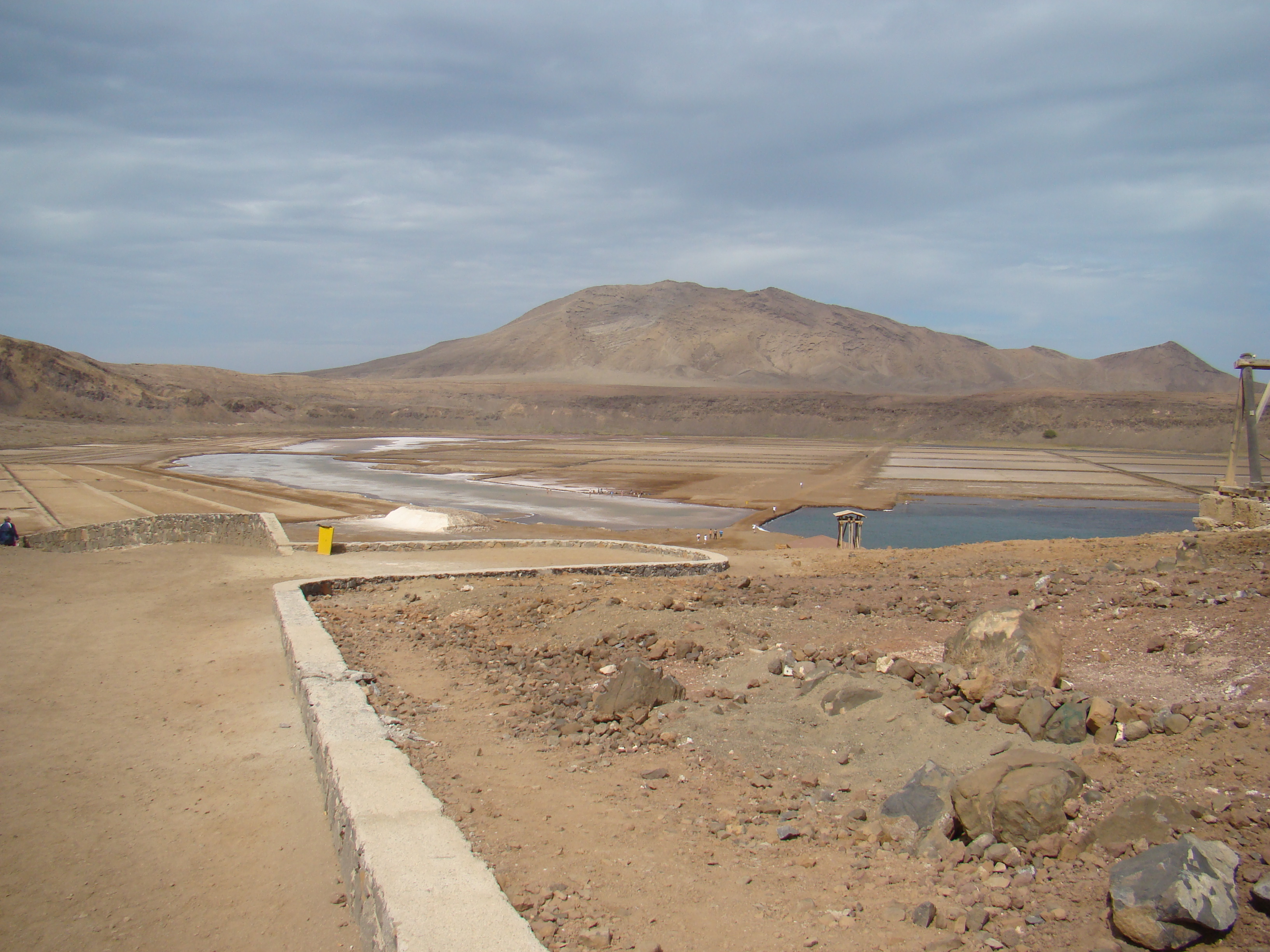 Salina.Pedra de Lume/Sal/Cape Verde